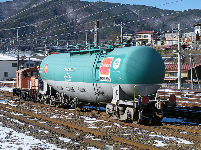 Oil freight car type taki 1000(No.753) pushed by Kyosan's 10t switcher at Tatsuno Sta., Nagano, Japan.